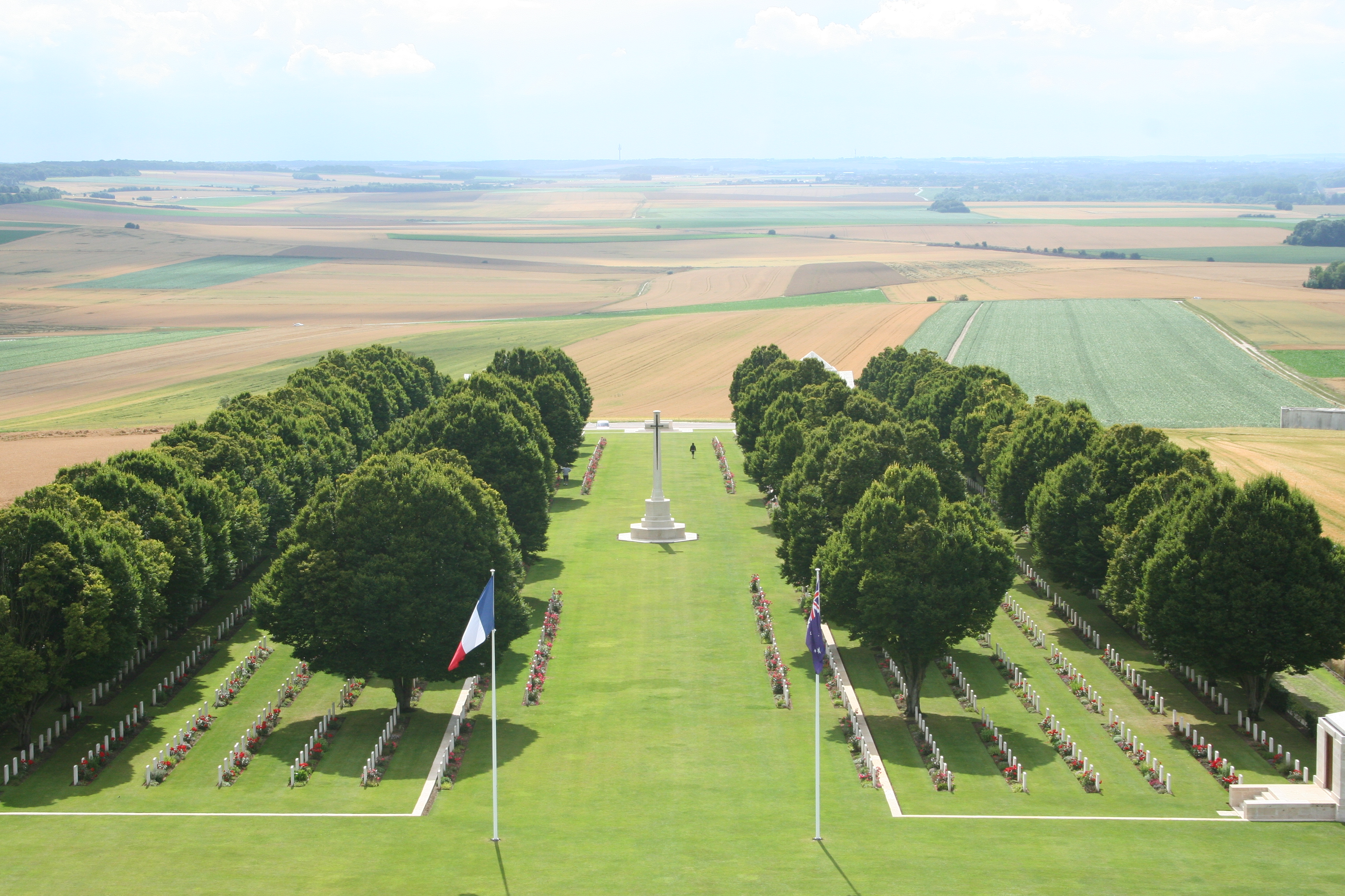 A view from the top of the Australian National Memorial at the Villers-Bretonneux Commonwealth War Graves Cemeterey showing the graves of over 770 Australian soldiers, as well as those of other Commonwealth soldiers involved in the campaign.There are now (July 2012) 2,142 Commonwealth servicemen of the First World War buried or commemorated in this cemetery. 609 of the burials are unidentified but there are special memorials to five casualties known or believed to be buried among them, and to 15 buried in other cemeteries whose graves could not be found on concentration. The cemetery also contains the graves of two New Zealand airmen of the Second World War.